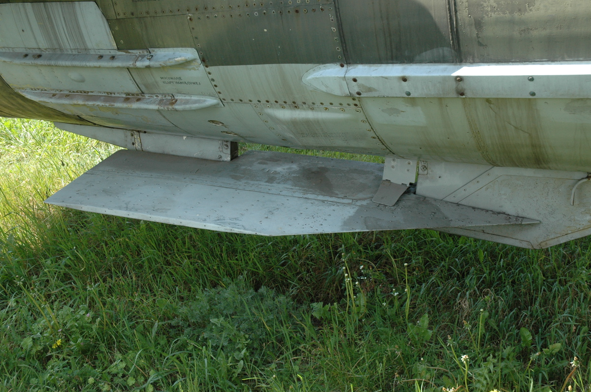 Ventral fin on a MiG-23 (in folded position)